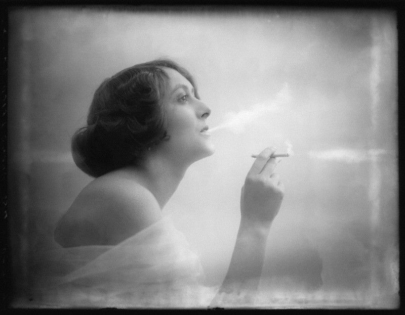 Photograph of Dorma Leigh (née Dorothy Mabel Woodley).